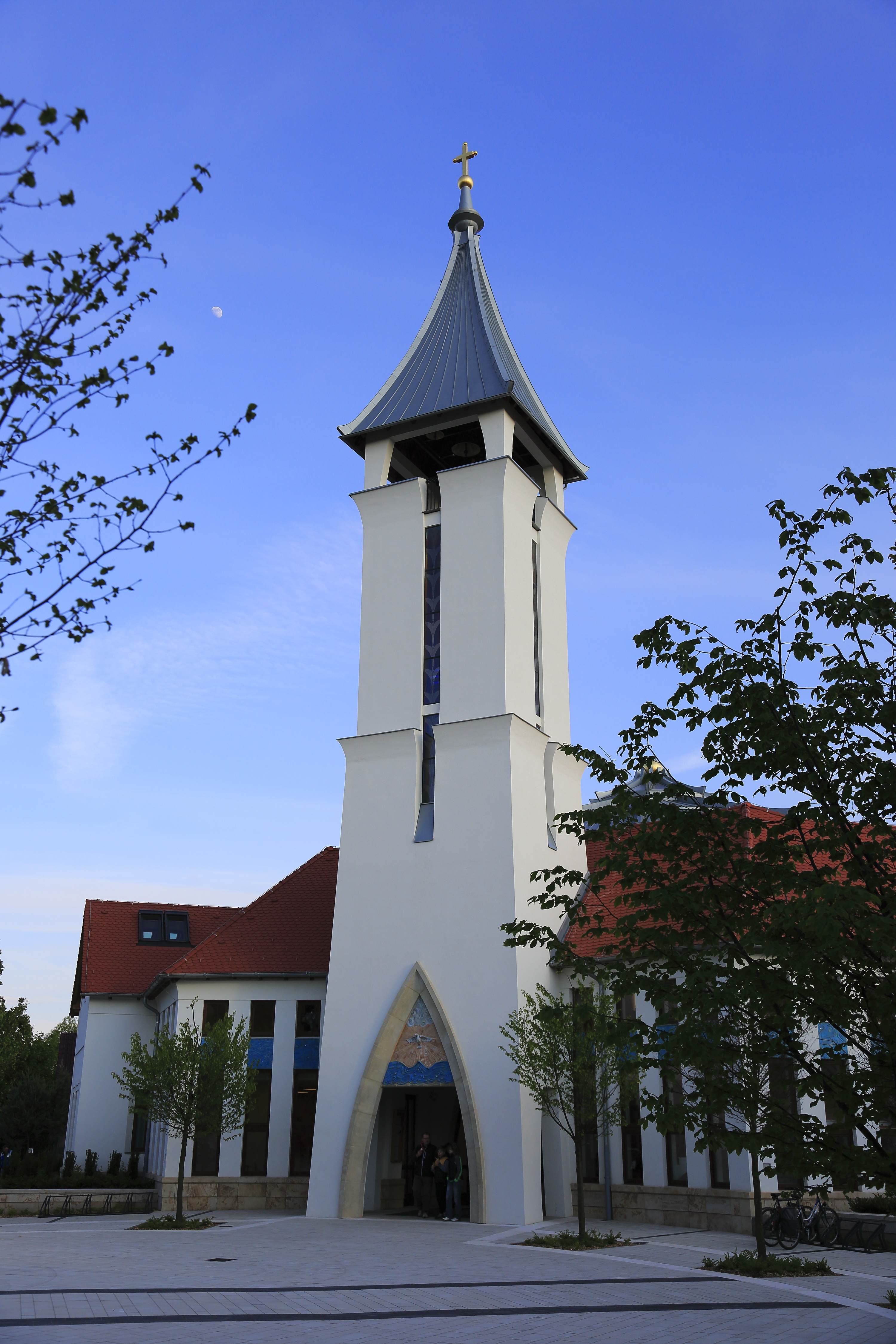 Holy Spirit Church at Veresegyház